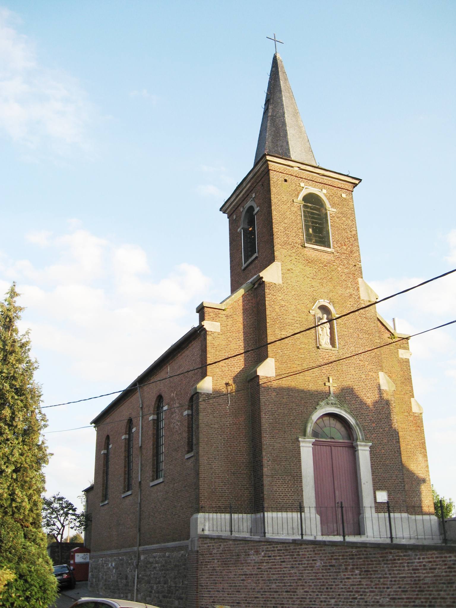 Church of Saint Cunibert in Diets-Heur, Tongeren, Limburg, Belgium